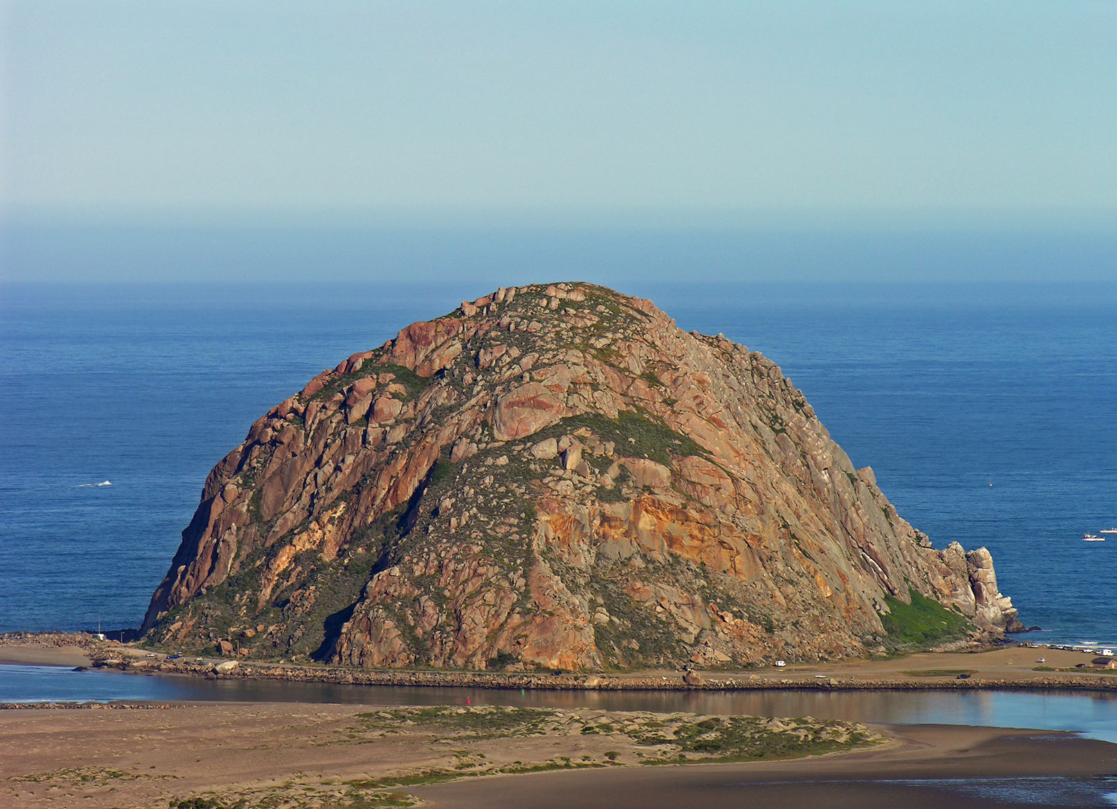 This is a picture of Morro Rock in Morro Bay, California. The picture was taken by me on May 28, 2006. I give permission for the picture to be used with attribution under the GFDL and Creative Commons.